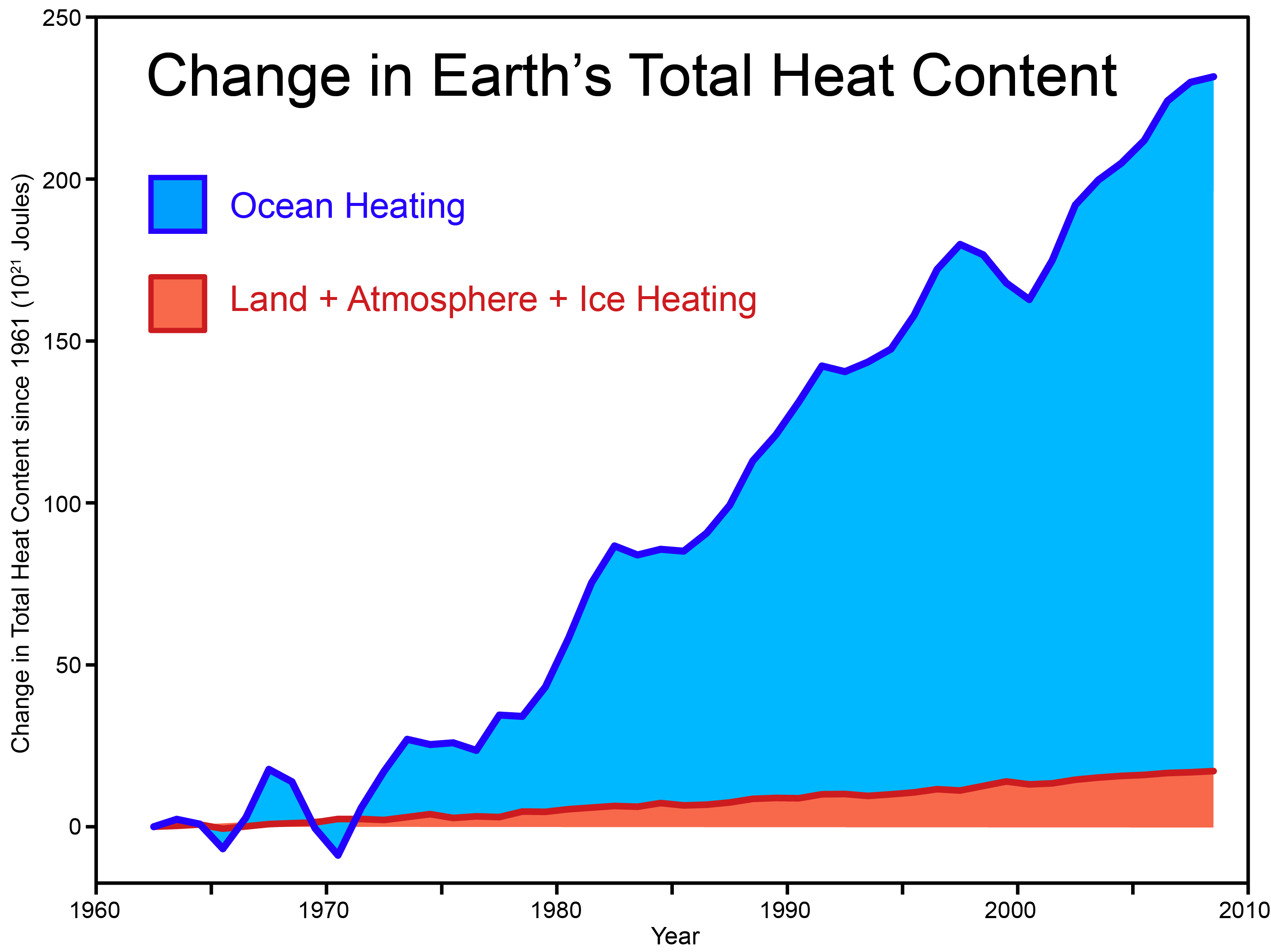 This graph shows how much more global warming is heating the oceans vs the combined heating of land, ice, and atmosphere.